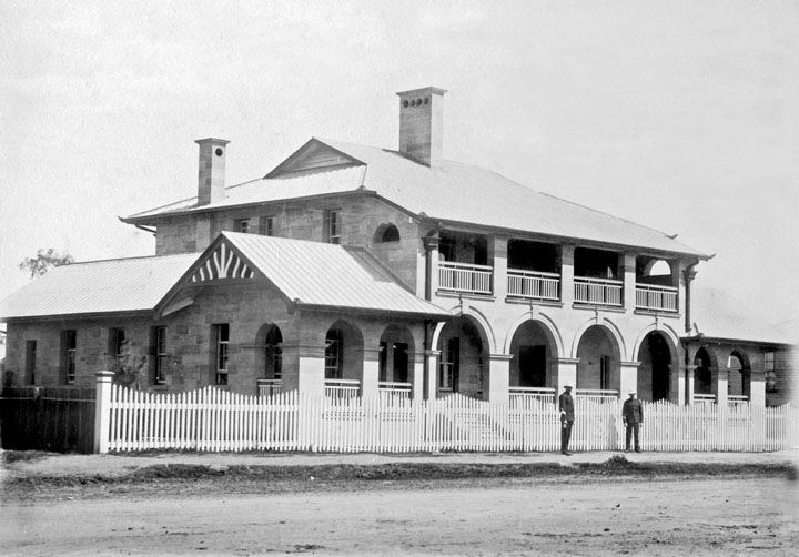 Police Station, Warwick. (Alternative name is Warwick Court House and Police Complex, Fitzroy Street, Warwick.)